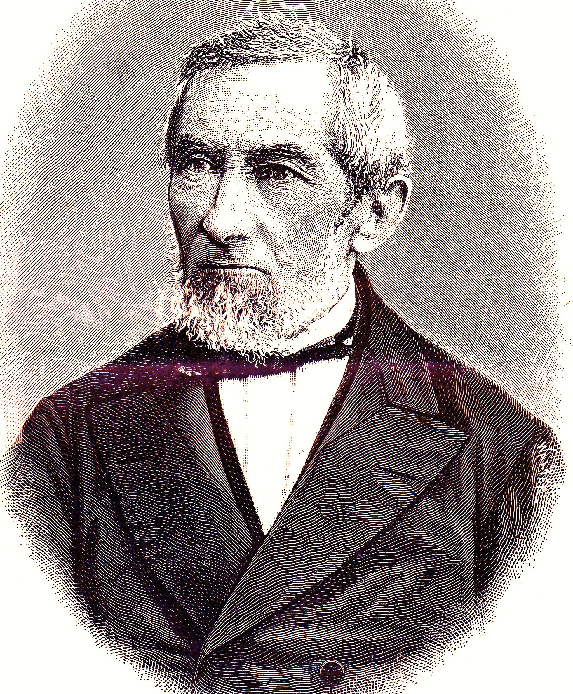 Mr. G. Diephuis